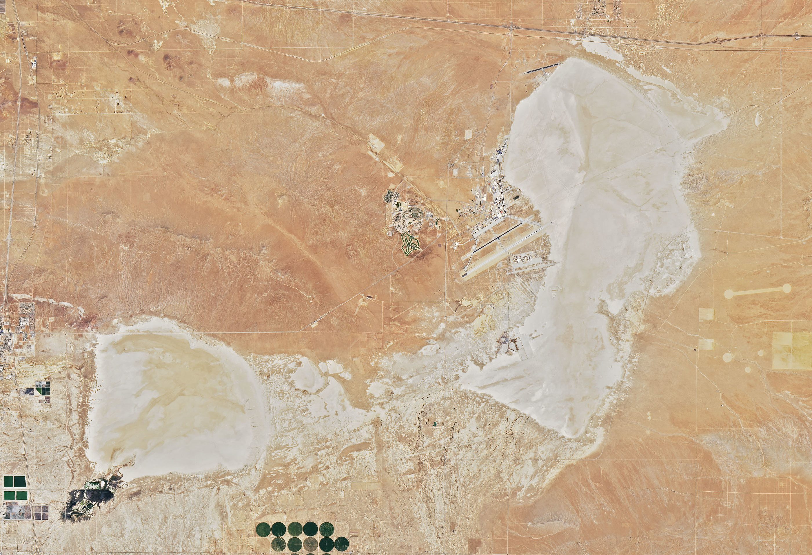 Satellite image of the Rogers Dry Lake (on the right side) and the smaller Rosamond Lake (bottom left). Well visible: Edwards Air Force Base, located on the west side of Rogers Dry Lake. On July 1, 2019, Operational Land Imager (OLI) on NASA's Landsat 8 acquired this image.